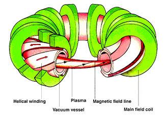 Principle of the stellarator.